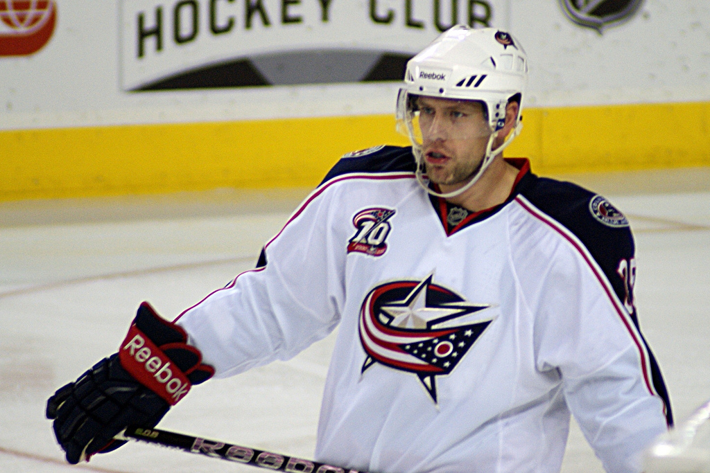 Jan Hejda, born June 18, 1978 in Prague, Czechoslovakia, is a Czech professional ice hockey defenceman currently with the Columbus Blue Jackets of the National Hockey League. This NHL game action photo was taken December 13, 2010 at the Scotiabank Saddledome in Calgary, Alberta.